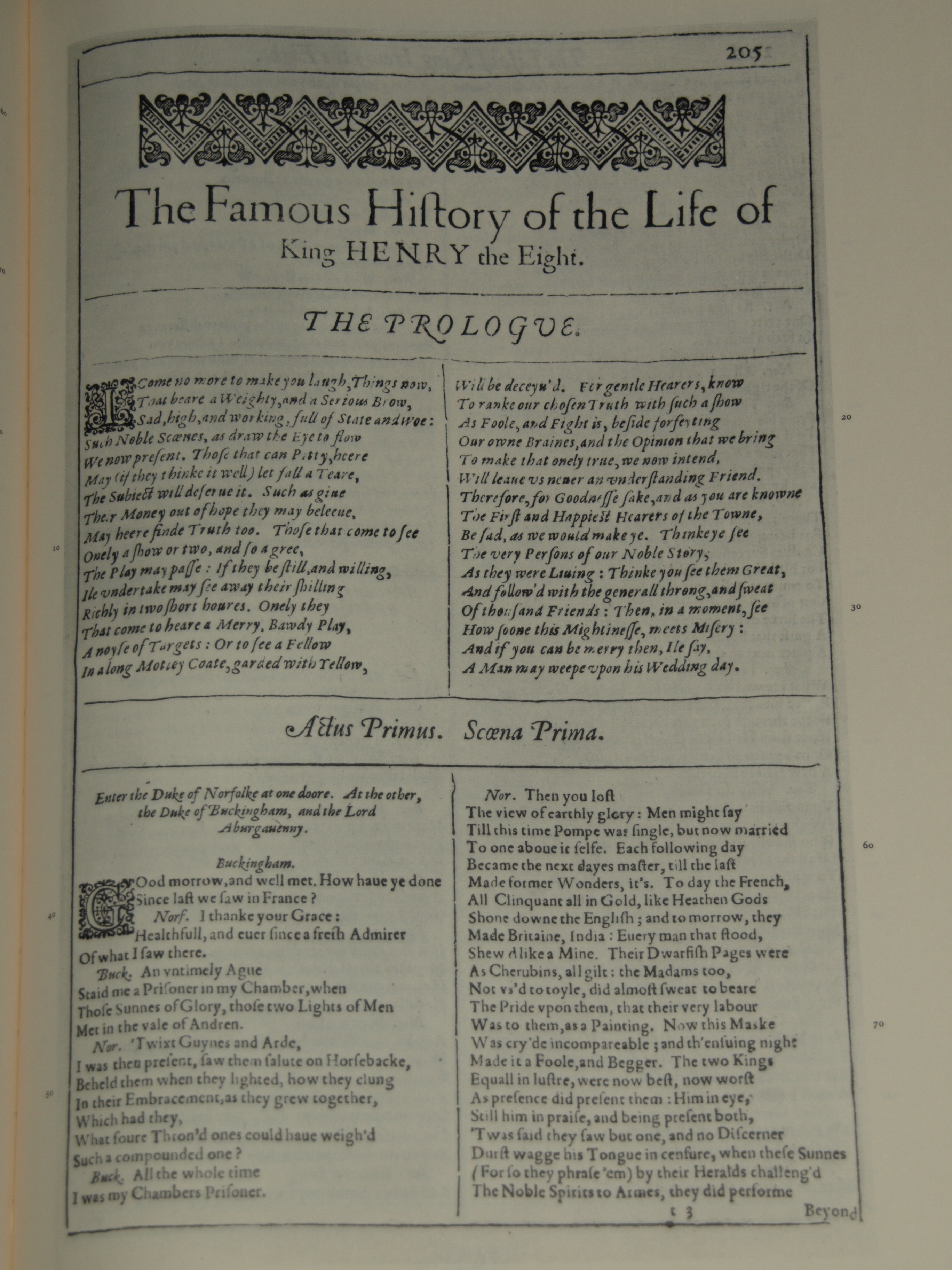 Photo of the first page of Henry VIII from a facsimile edition of the First Folio of Shakespeare's plays, published in 1623